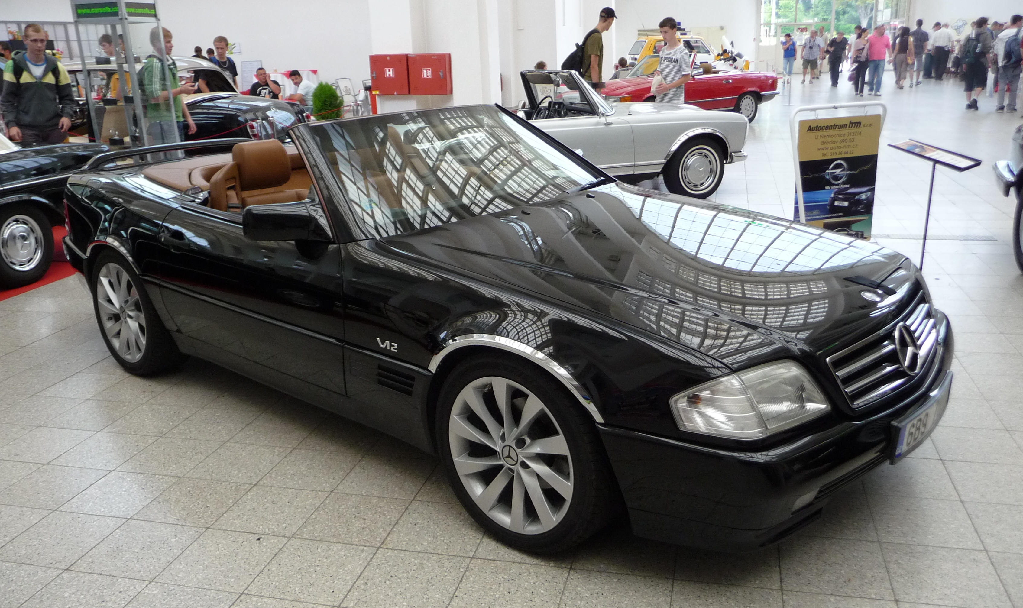 Mercedes-Benz SL 600 (R129), year 1994, Classic Show Brno 2011, The Brno Exhibition Grounds -10 -5 -3 -2 ◄ ► +2 +3 +5 +10